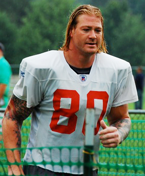 Jeremy Shockey during a 2007 training camp